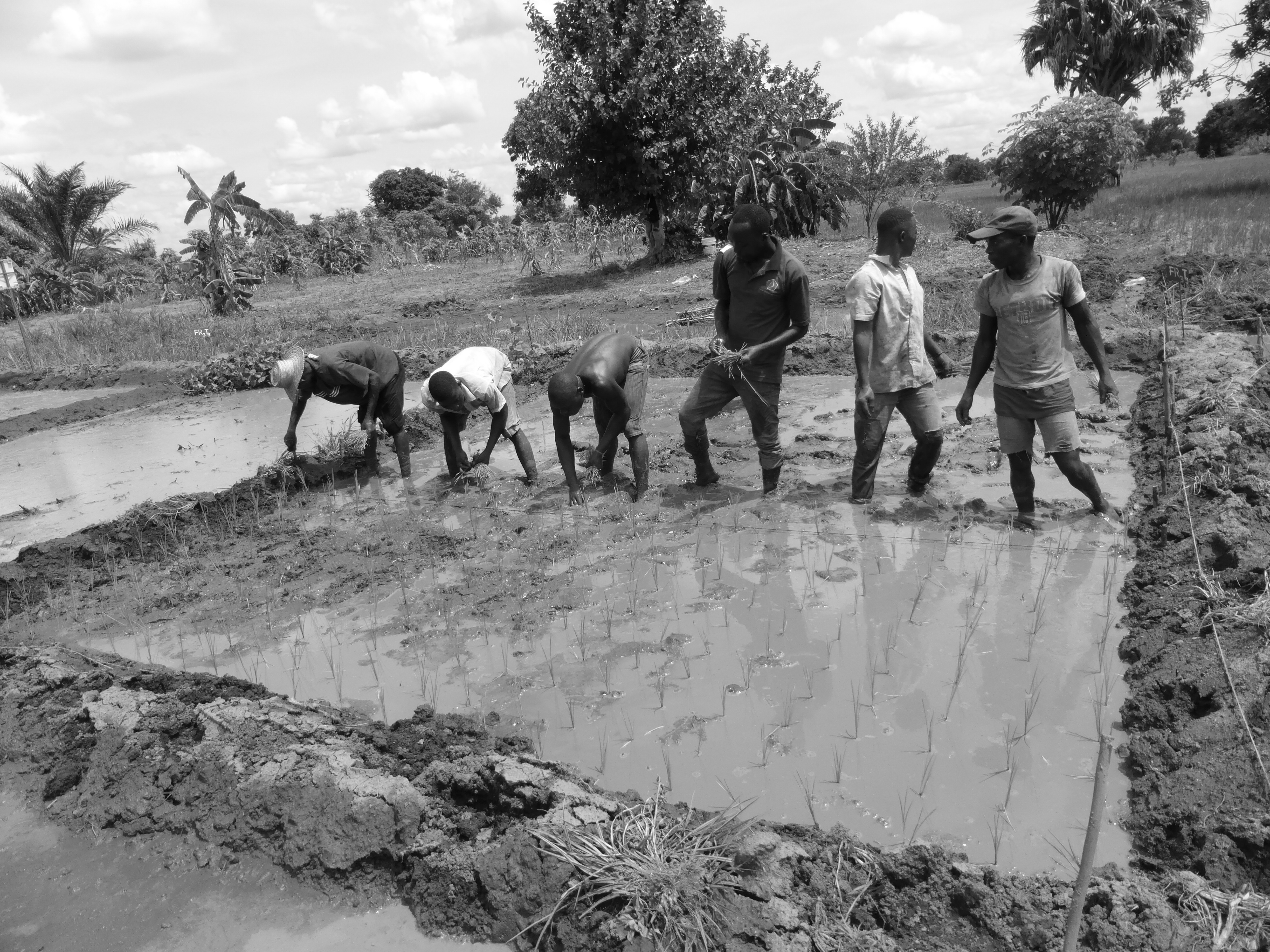 The work of rice transplanting is generally done by women. through my research we have had men training in transplanting and they are doing it first and better than women. This is an image of "African people at work" from Tanzania